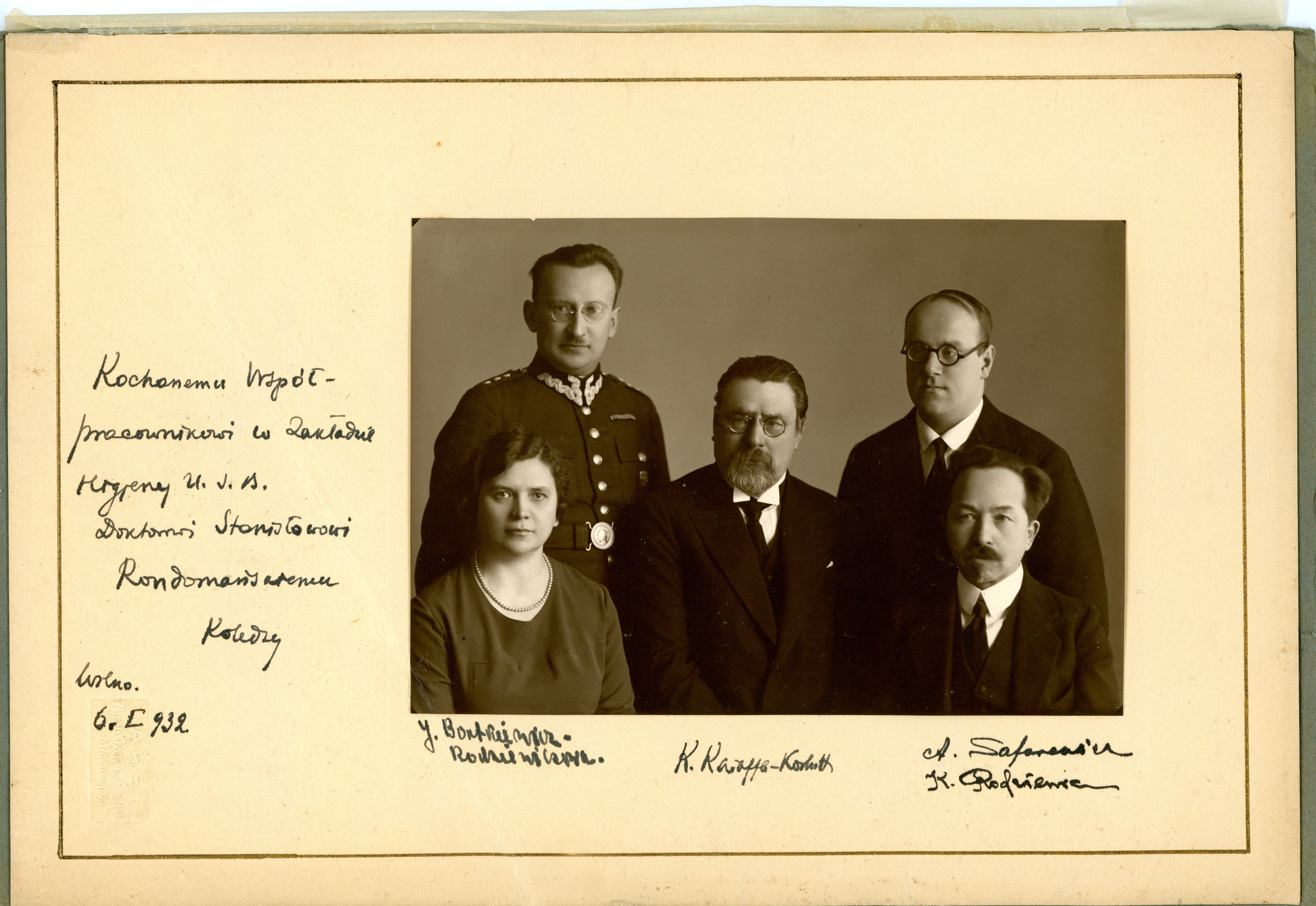 Staff of the Department of Hygiene of the Vilnius University on 6 January 1932. From the left: Janina Bortkiewicz-Rodziewiczowa, Stanisław Rondomański, Władysław Karaffa-Korbutt, Kazimierz Rodziewicz, Aleksander Safarewicz.